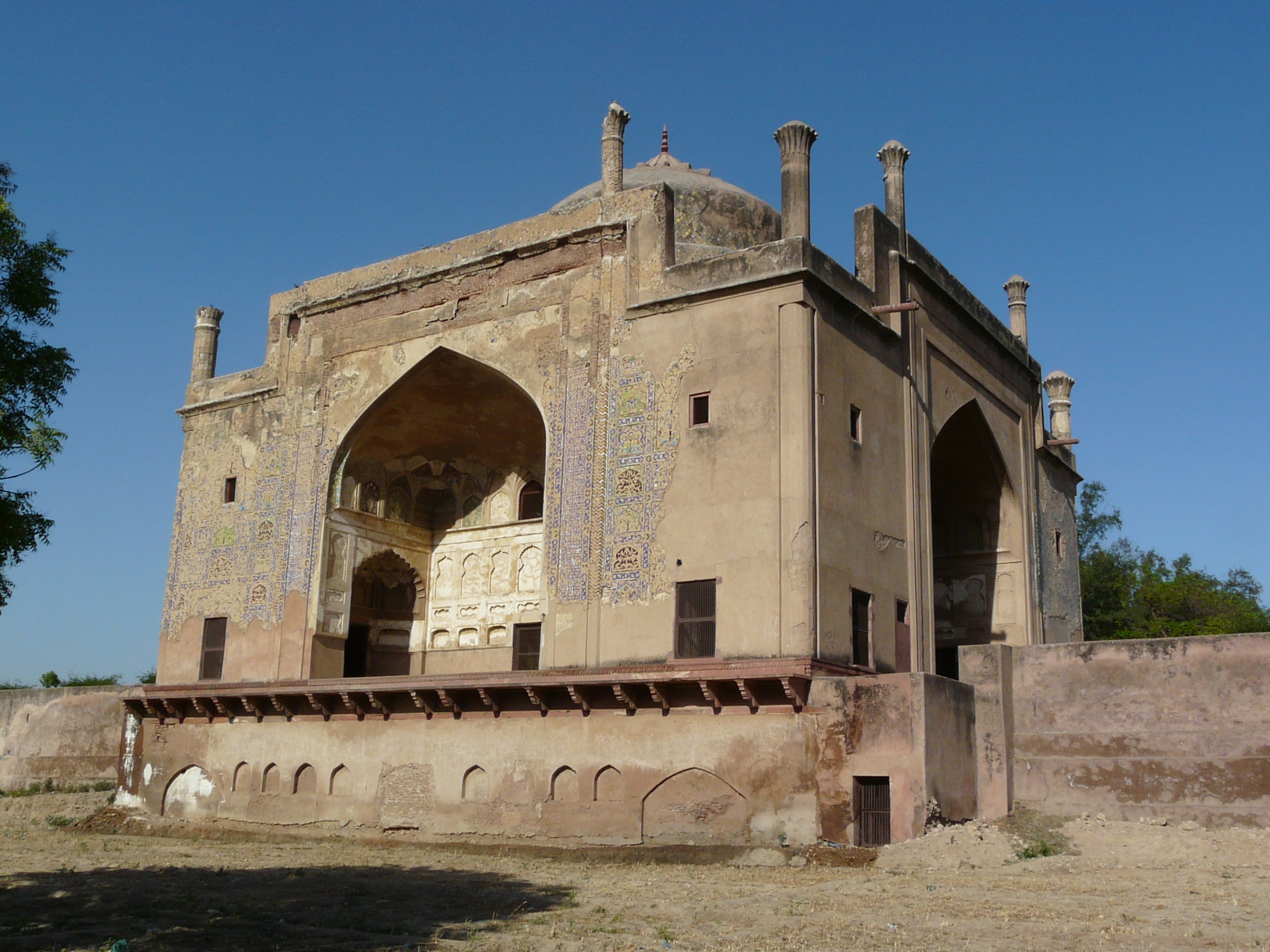 Chini ka Rauza is the tomb of Allama Afzal Khan Mullah of Shiraz, Iran a renowned scholar and poet who was the Prime Minister of the Mughal Emperor, Shah Jahan. The tomb was built in 1635.